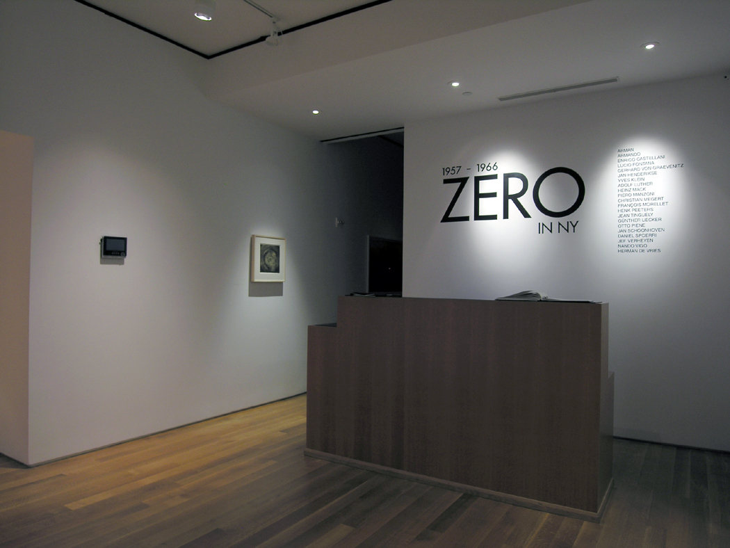 Exhibition view Sperone Zero NY